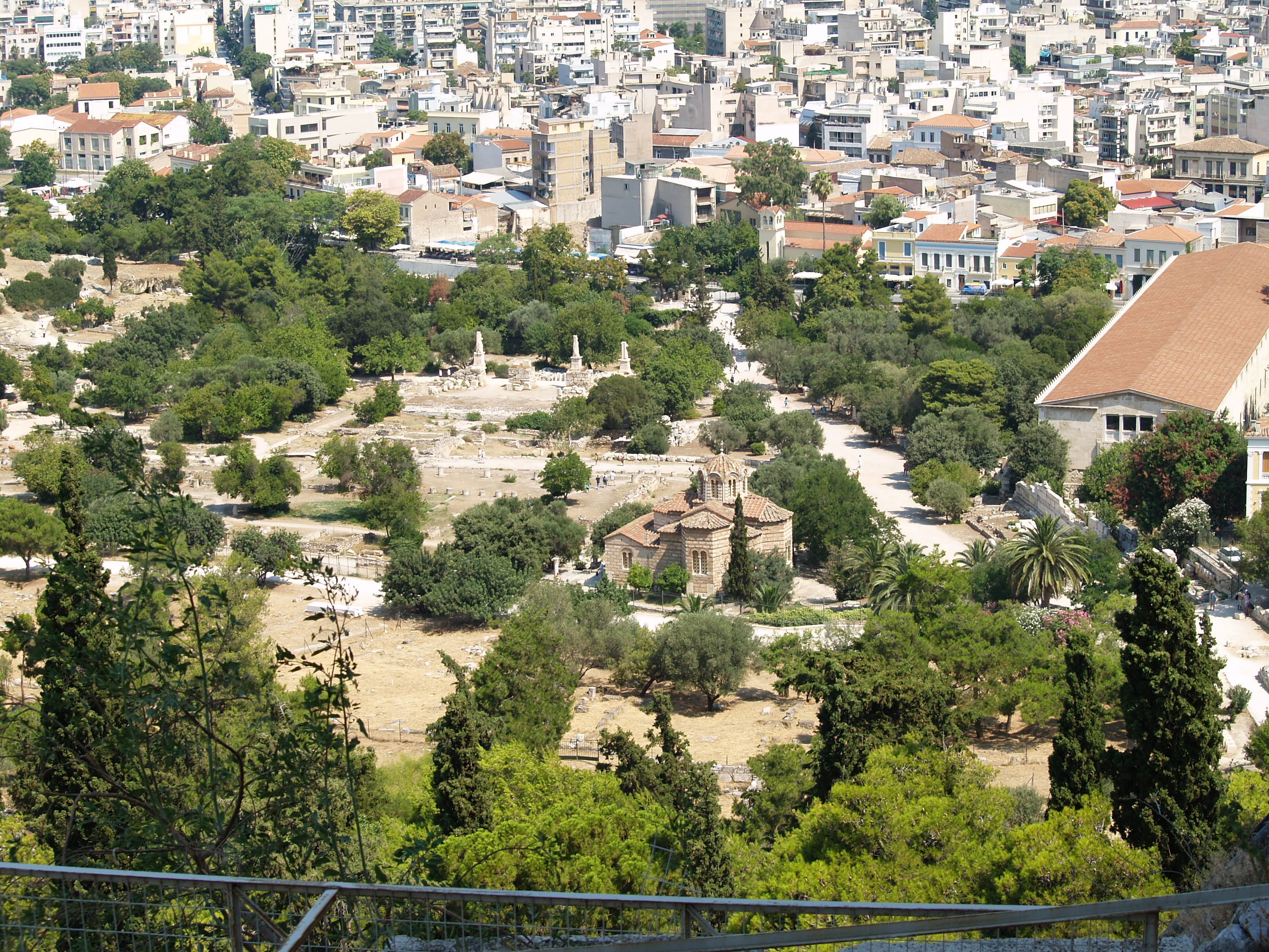 This is the Ancient Agora of Athens.